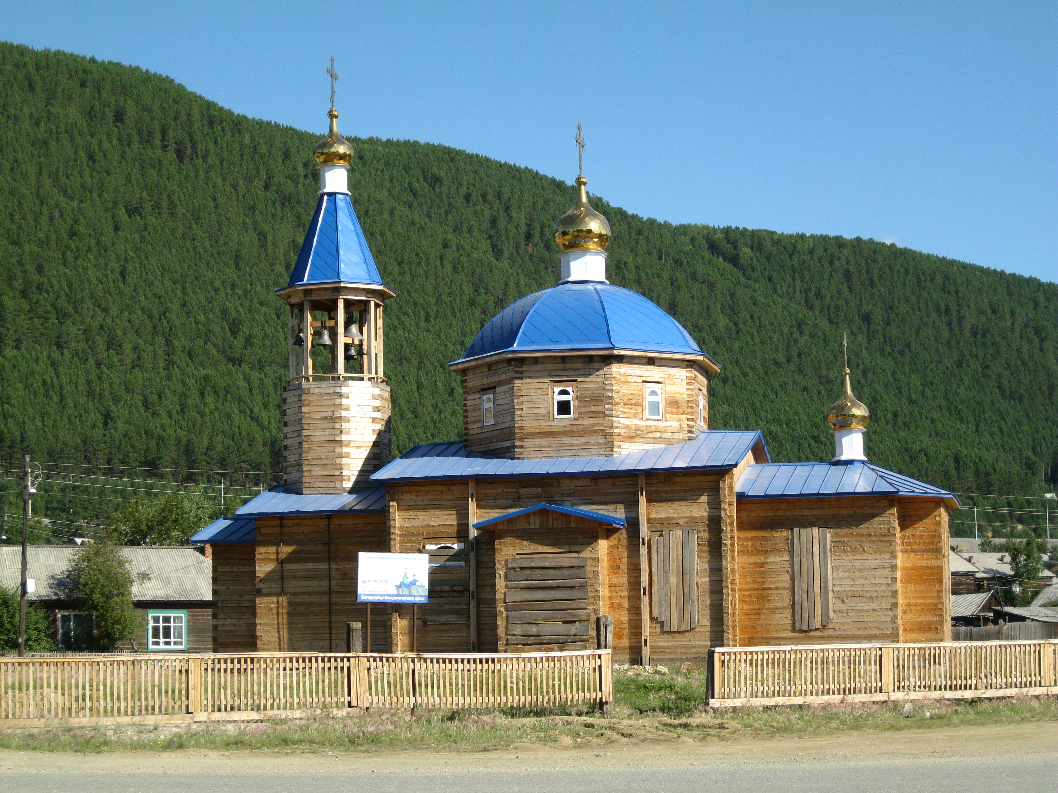 Theotokos of Vladimir church in Nizhneangarsk, Buryatia, Russia